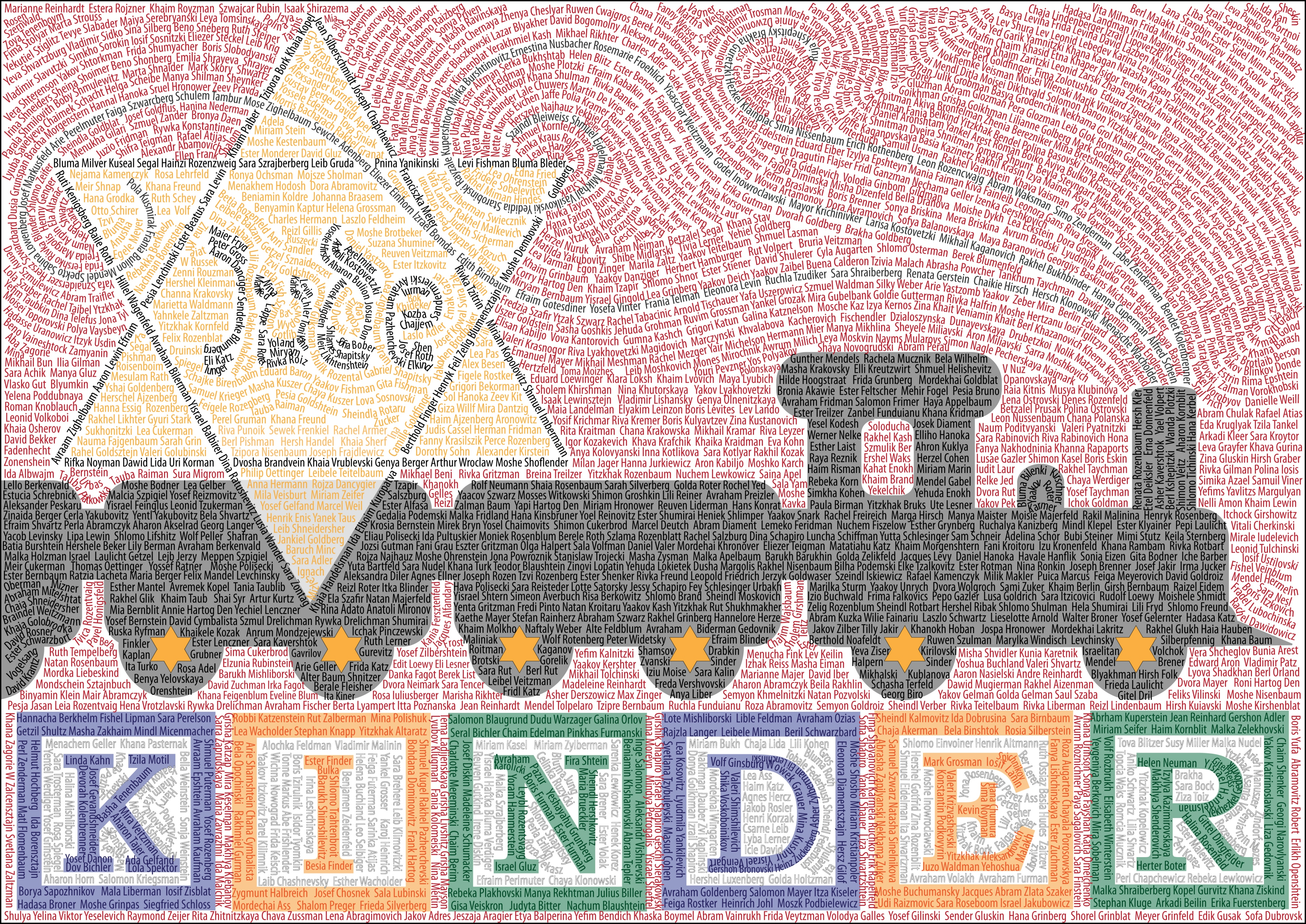 The names on this graphic were taken from the Central Database of Shoah Victims' Names . This image remembers just a few of the 1.5 million children who perished in the Shoah. All the names on this image are those of children aged 12 or less. The six yellow stars in the wheels of the train represent the 6 million Jews who died as a result of the Holocaust.